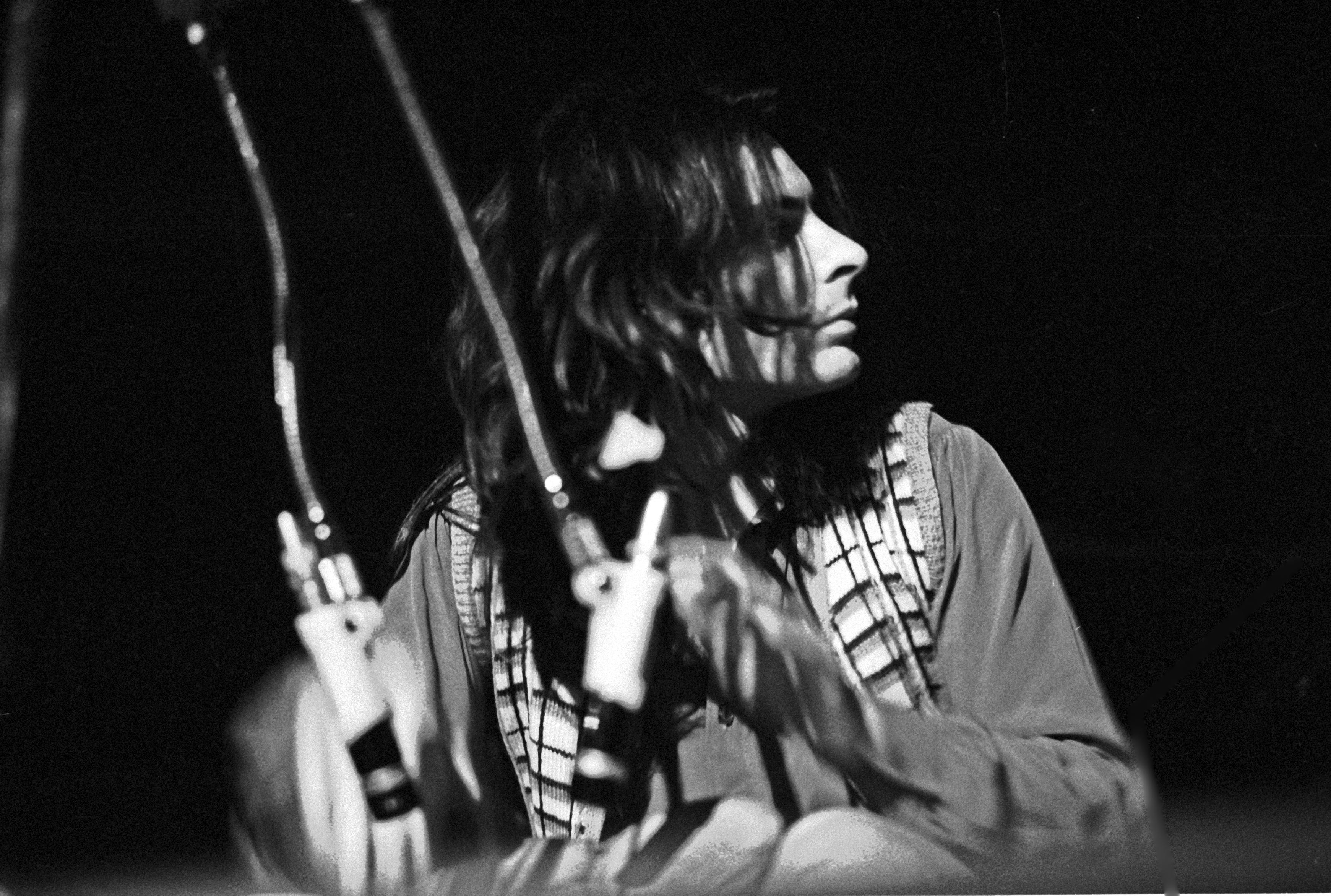 T.Rex drummer Mickey Finn performing in the band in the Musikhalle Hamburg, January 1972 und February 1973